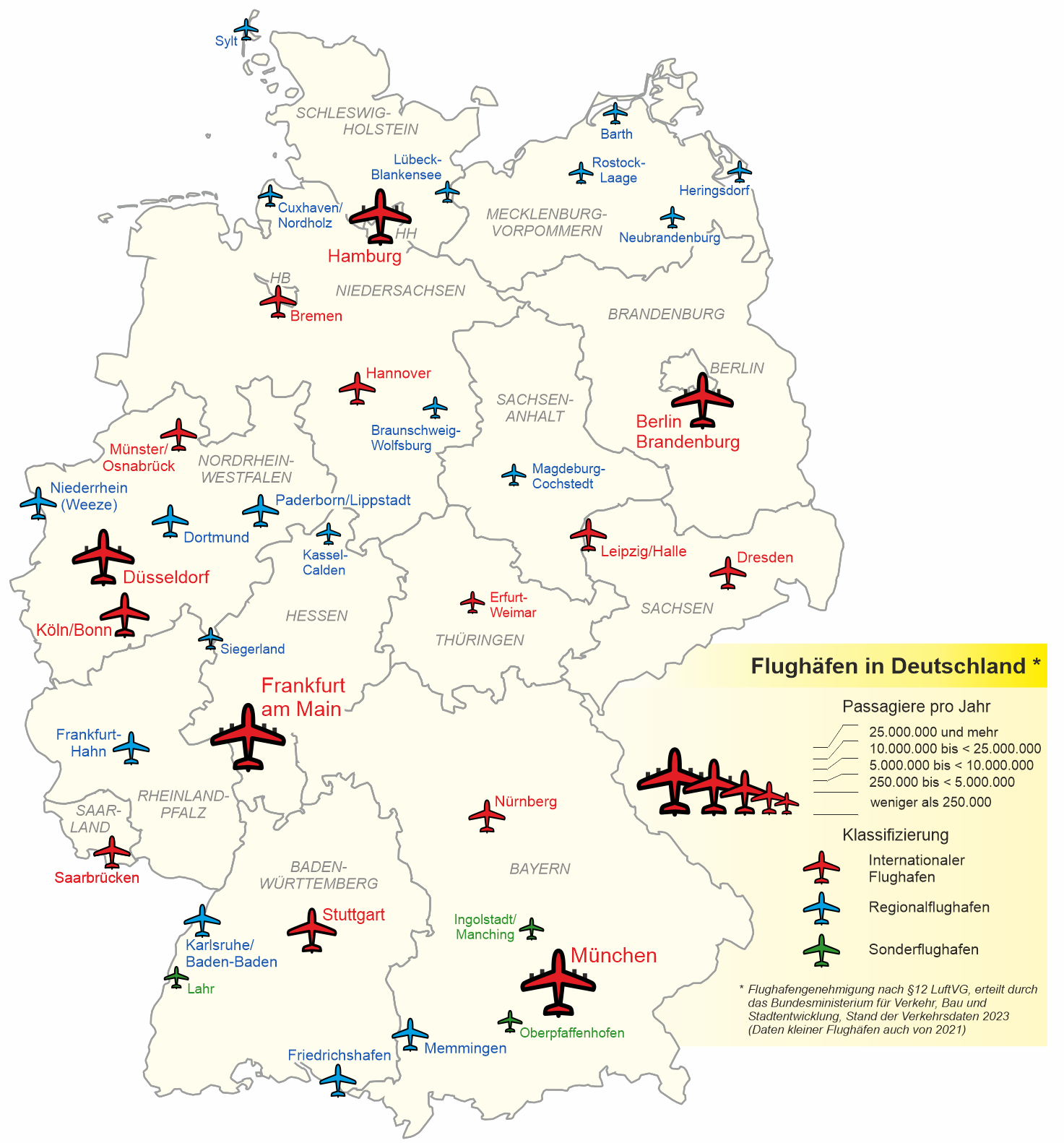 German aerodromes that are classified as "Flughafen" (airport).